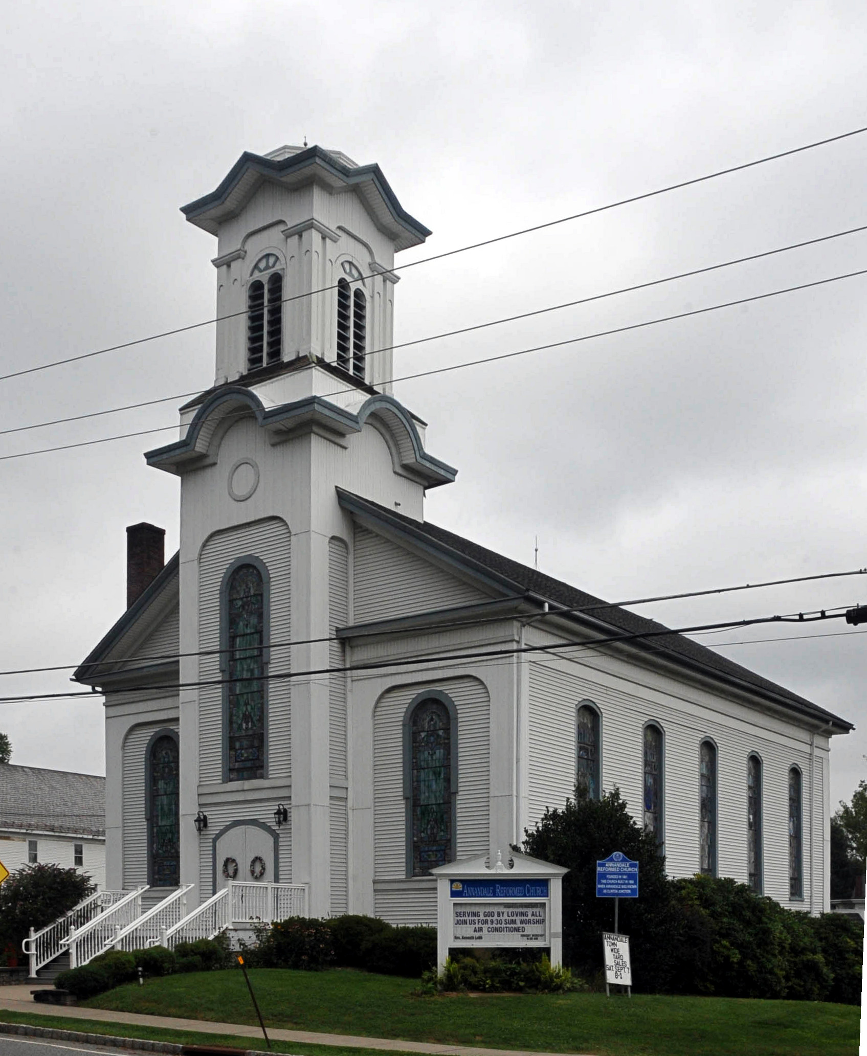 CHURCH BUILT IN 1861 WHEN ANNANDALE WAS KNOWN AS CLINTON JUNCTION